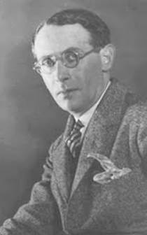 Polish muralist Jan Henryk de Rosen (1891-1982)